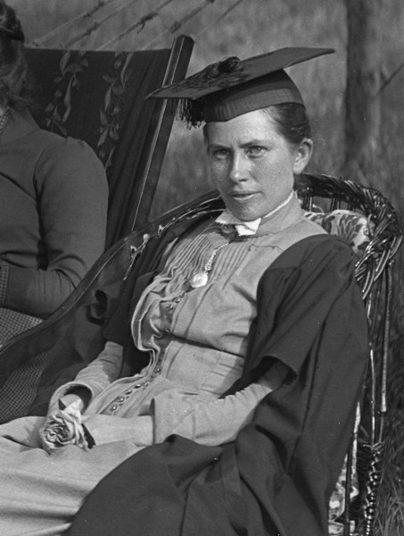 Kate Milligan Evans (née Edger, 6 January 1857 – 6 May 1935) was the first woman in New Zealand to gain a university degree - guess 1885